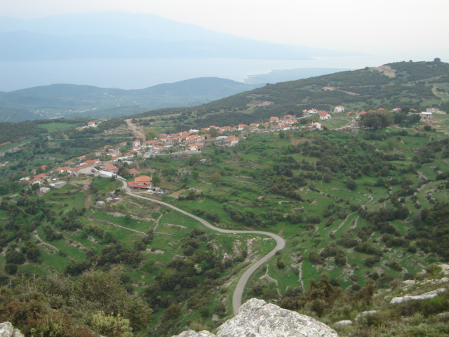 Filothei Doridos, Fokida, Greece